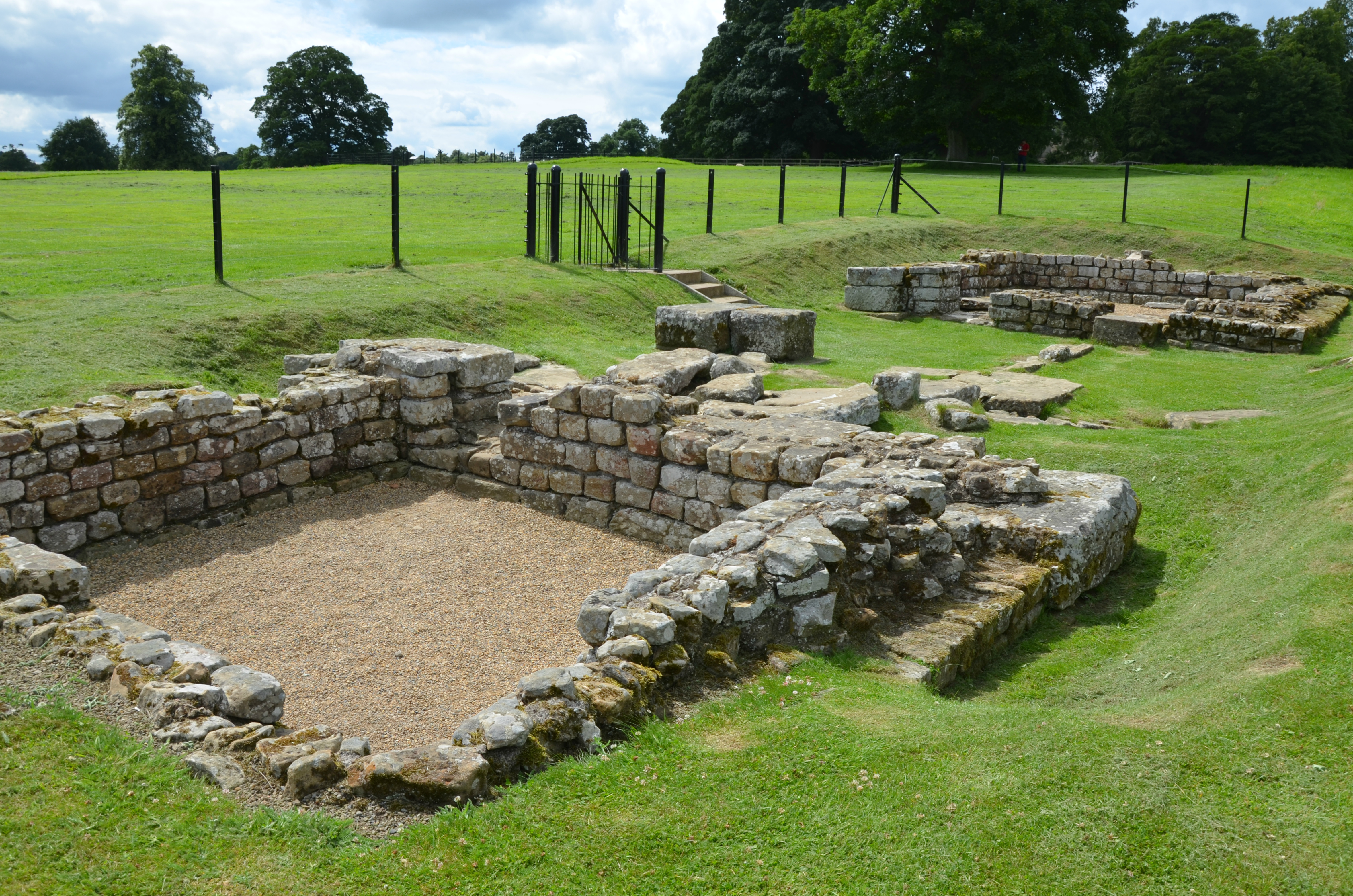 The North Gate, used to gain access to the area north of Hadrian's Wall, Chesters Roman Fort (Cilurnum), Hadrian's Wall